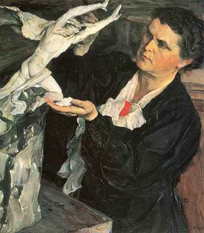 Russian sculptor, Vera Mukhina